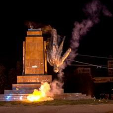 Cropped version of a photo of the destruction of the Kharkiv Lenin statue in September 2014